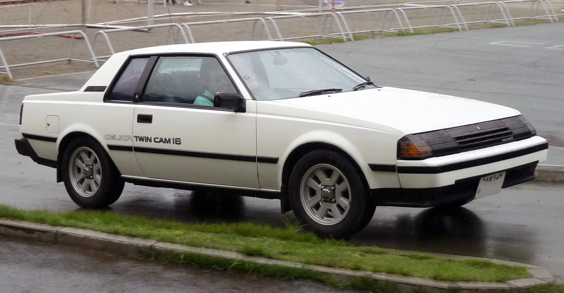 Toyota Celica 1600 GT-R (AA63, built from August 1983 until August 1985) at Saitama-Jidosya-daigaku classic car meet.